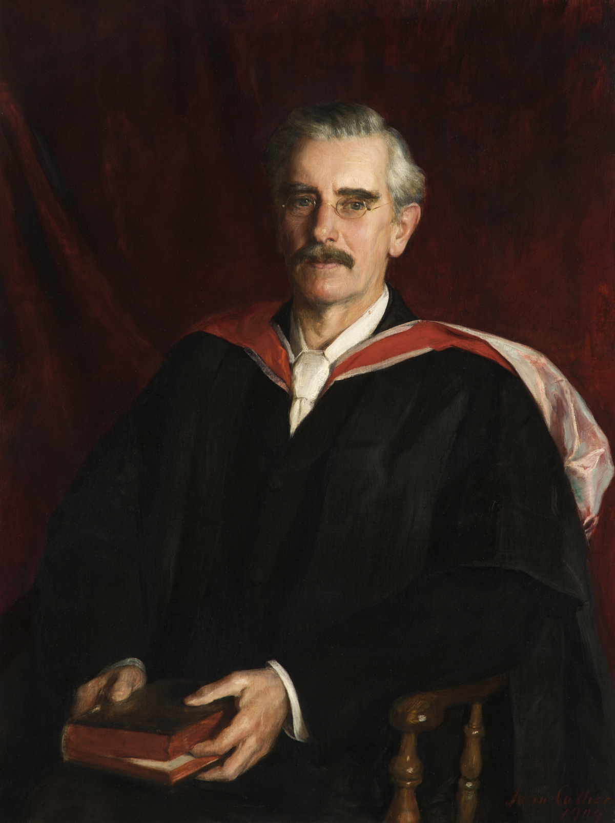 Portrait of Augustus Samuel Wilkins (1843–1905), English classical scholar in Manchester, mentioned in Wilkins, Augustus Samuel (DNB12).